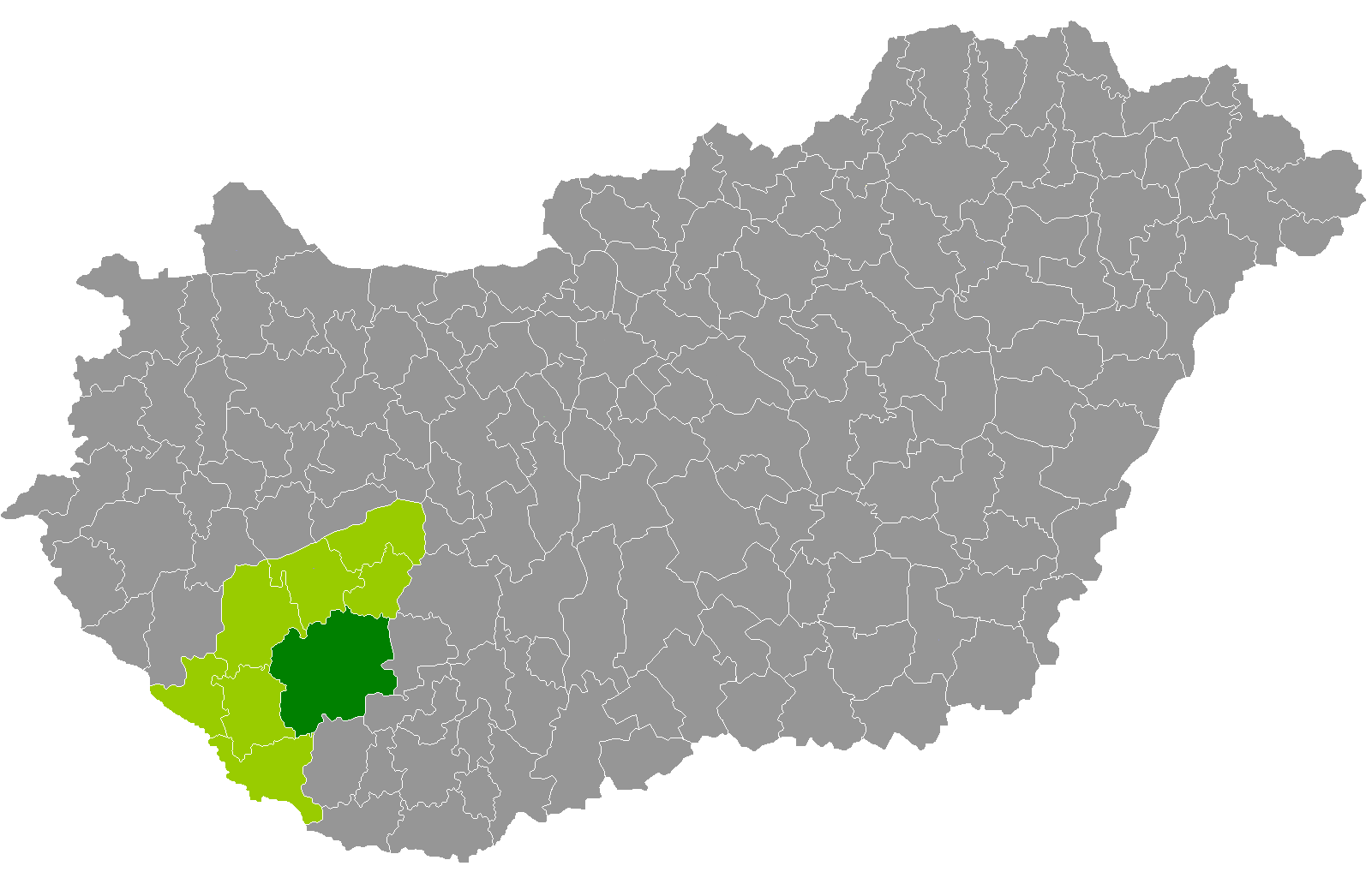 Location of Kaposvár District, Somogy, Hungary